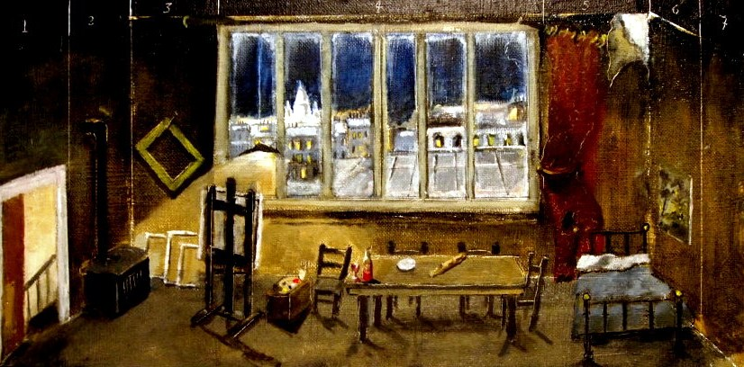 Set Design for the Opera "La Boheme"